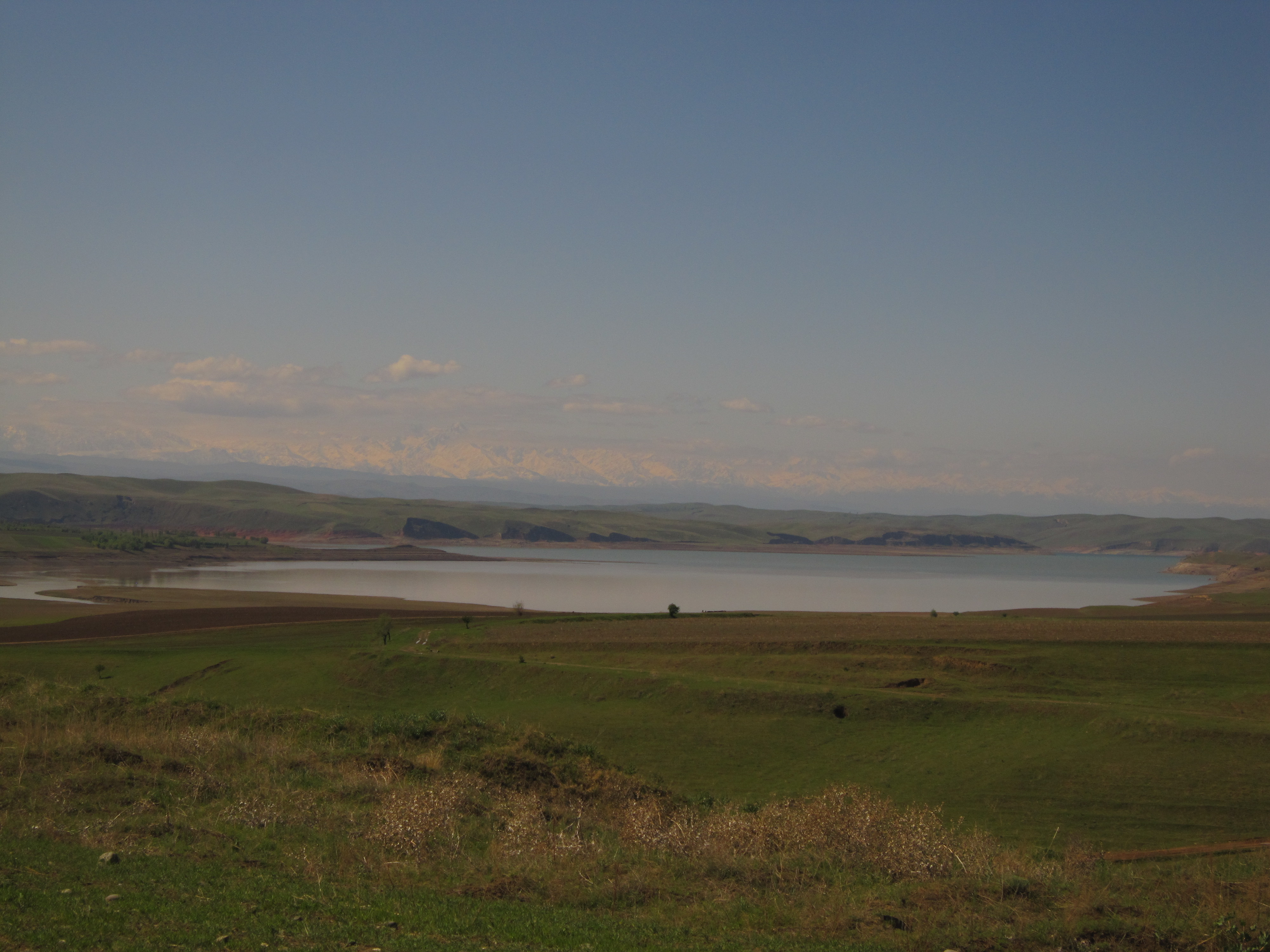 North arm of Andijan reservoir from kyrgyz side.